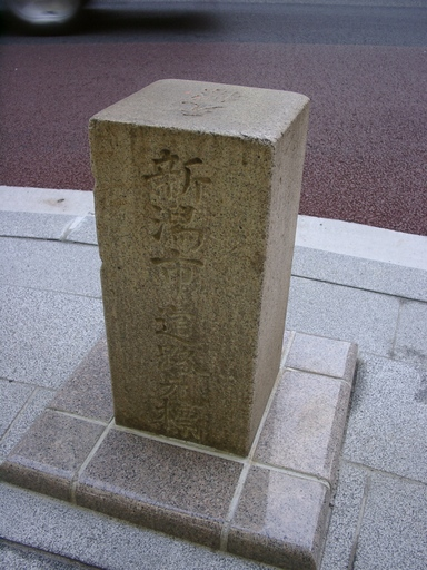 Kilometre Zero of Niigata city (Japan). Origin of route 7 and 8.